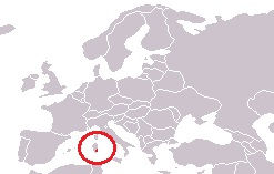 Distribution of Speleomantes imperialis, based on Nöllert/Nöllert: "Die Amphibien Europas"